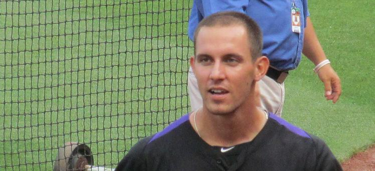 Christian Friedrich During Batting Practice on 2012 06 19 prior to Colorado @ Philadelphia Phillies game in Philadelphia